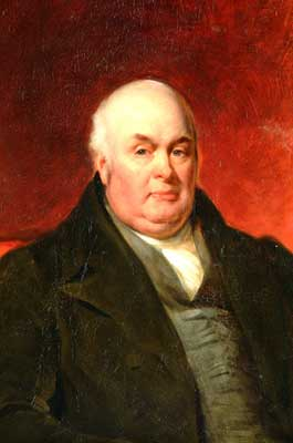 Robert Darwin, from a painting by James Pardon. since it's an old painting